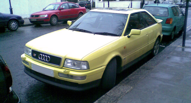 Audi S2